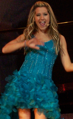 Bop to the Top